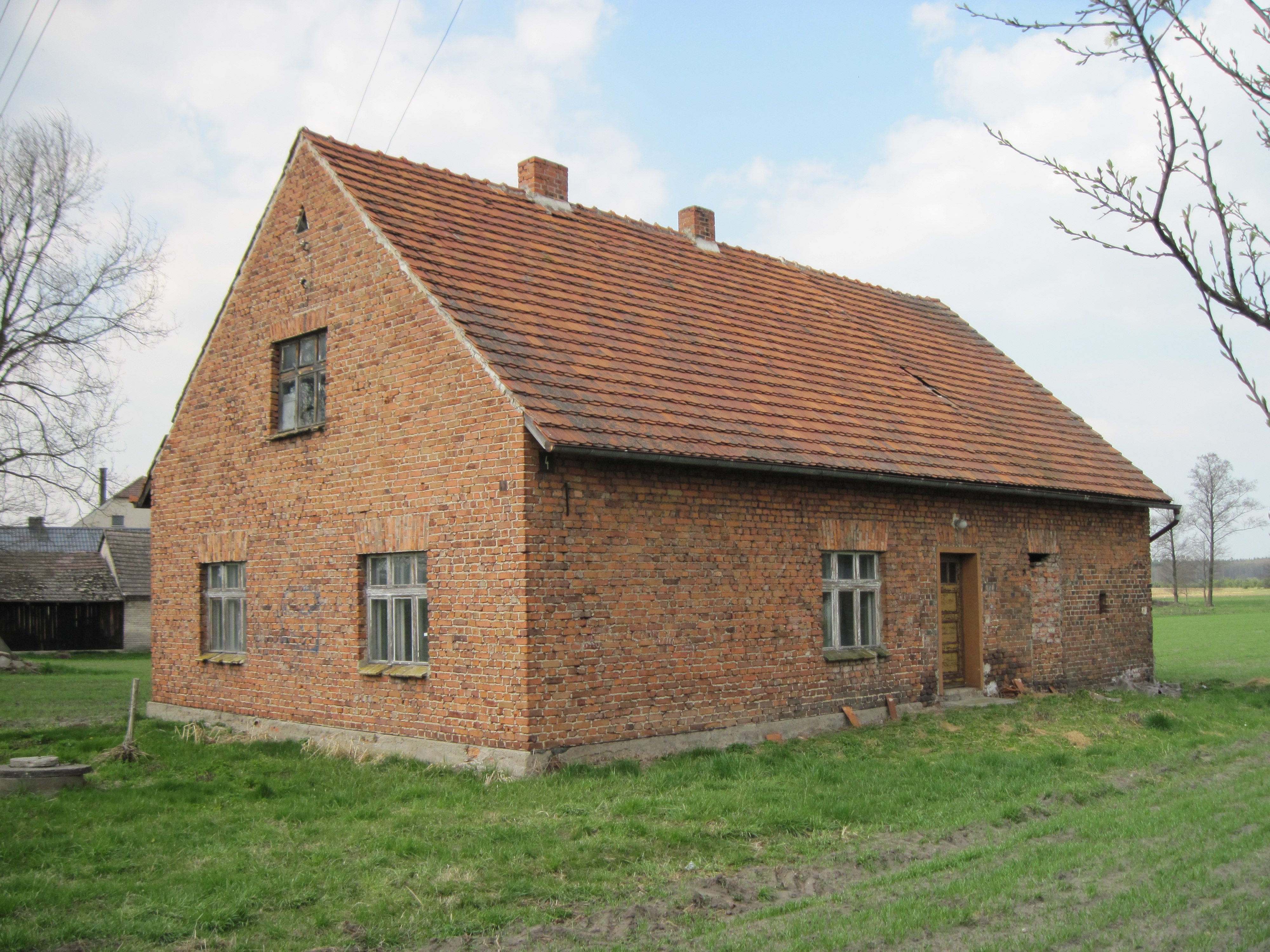 Building at Klasztorna street in Brynica, in which once the library was hold